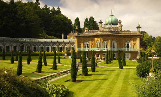 Sezincote House